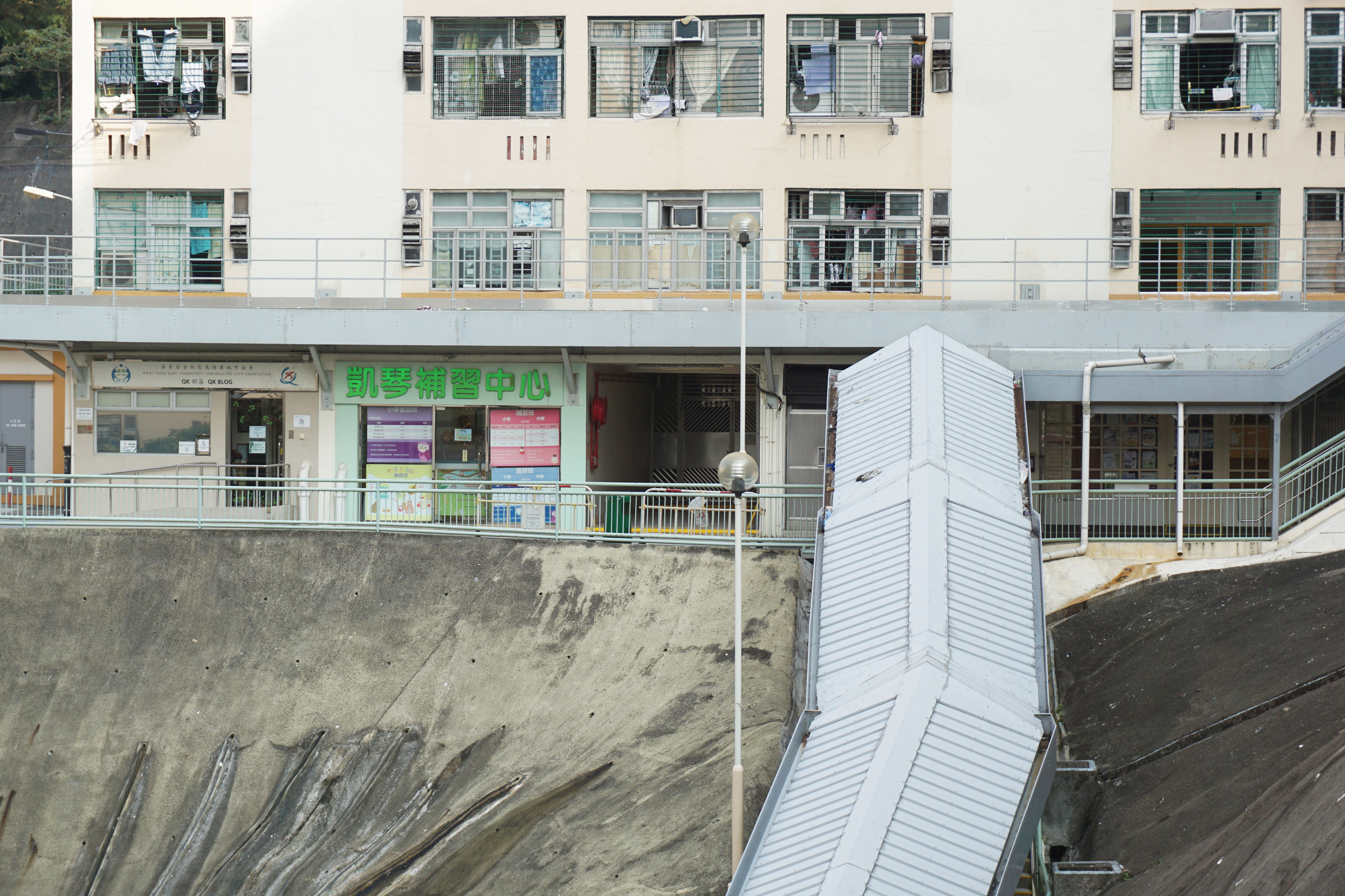 Yat King House in Lai King, Hong Kong.